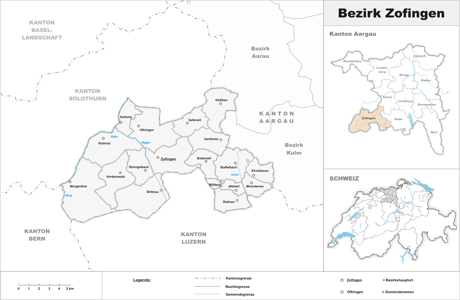 Municipalities in the district of Zofingen